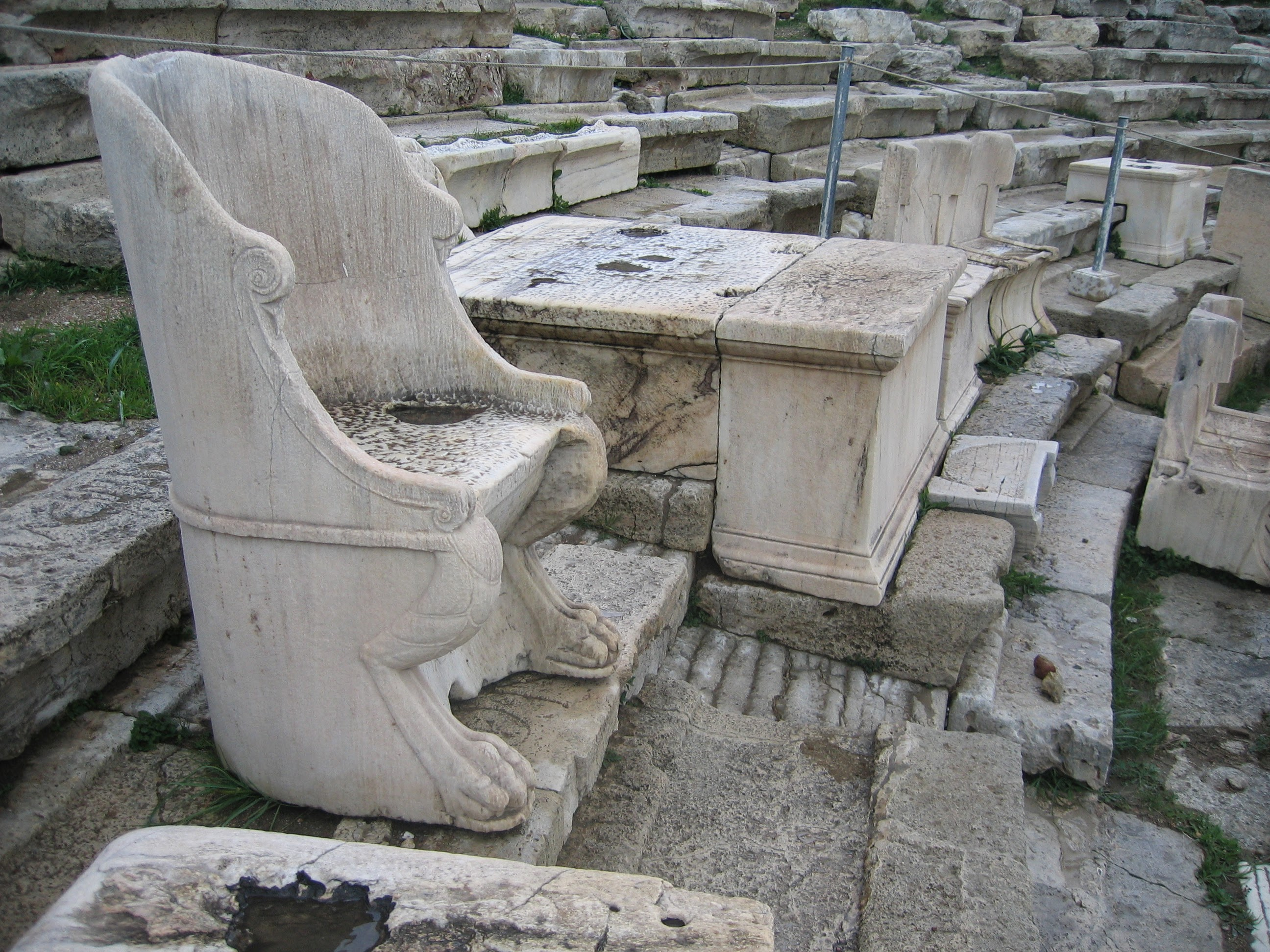 Athens, Greece